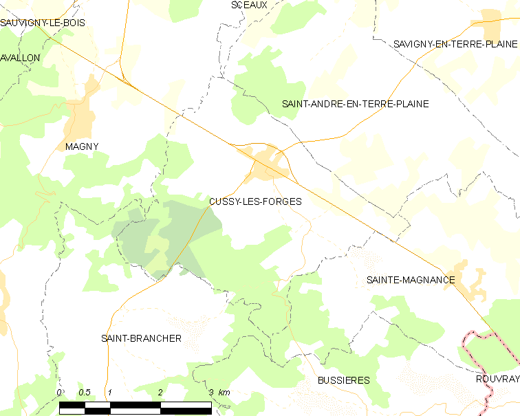 Map of French municipality Cussy-les-Forges